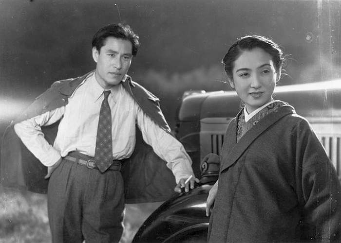 Shin Saburi and Hiroko Kawasaki in Akatsuki no gasshō (暁の合唱) directed by Hiroshi Shimizu